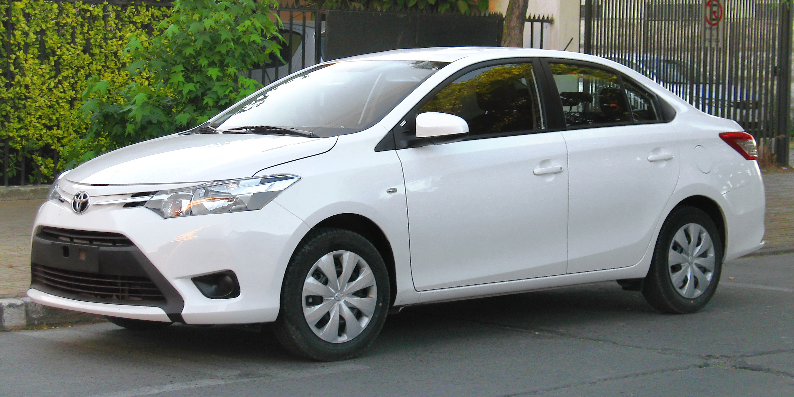 2014 Toyota Yaris 1.5 XLi in Chile.